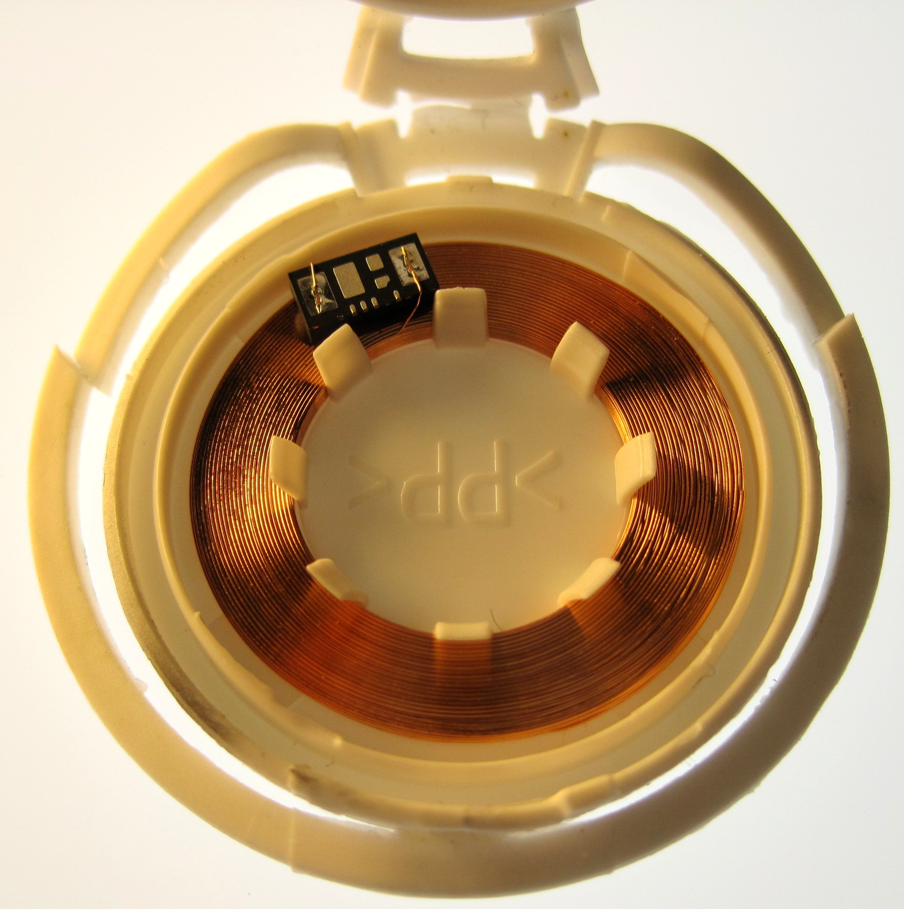 Opened Transponder Timing RFID chip. Outer diameter of coil approx 24mm.